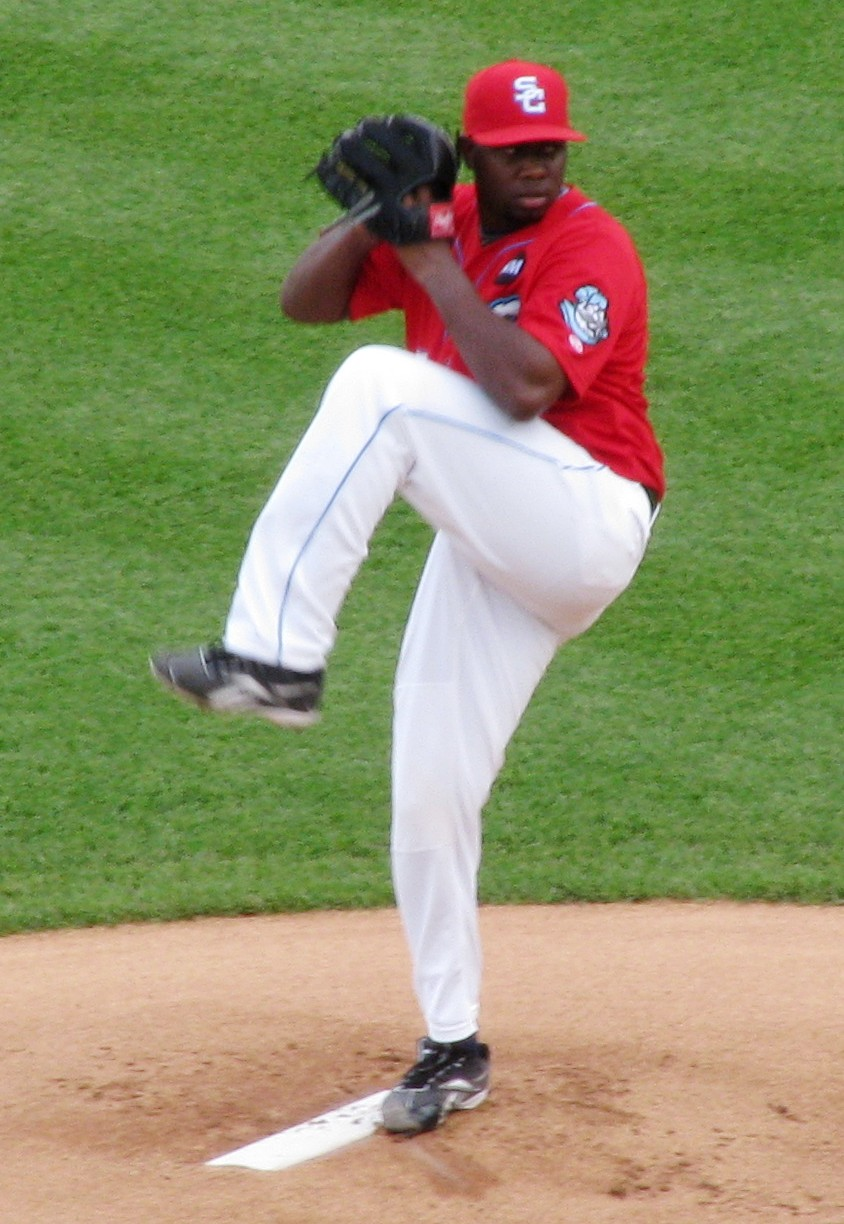 Shairon Martis pitching for the Syracuse Chiefs against the Pawtucket Red Sox, 7 September 2009.